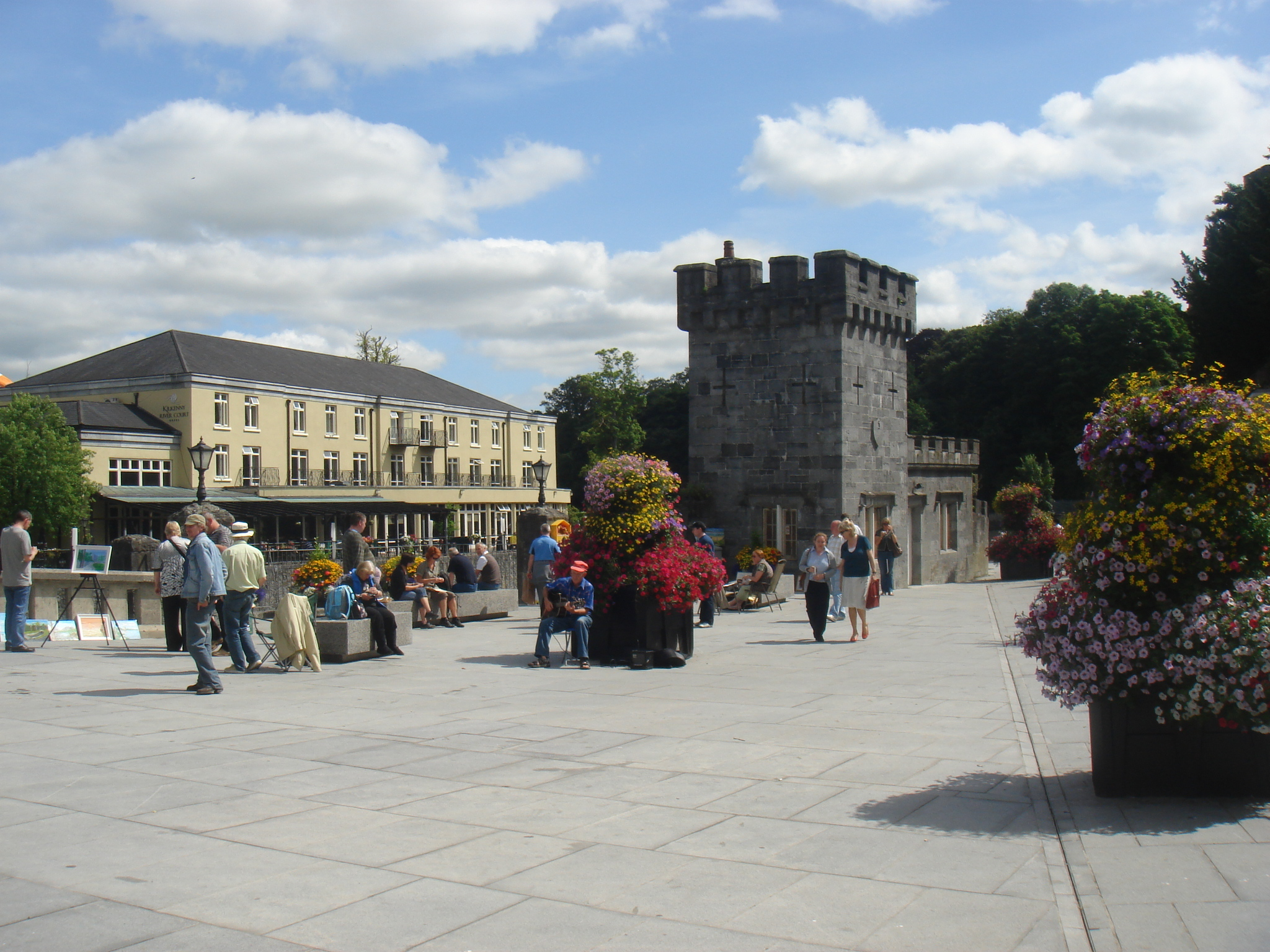 Canal Square, Kilkenny City. The Rivercourt hotel (yellow) is seen across the river.